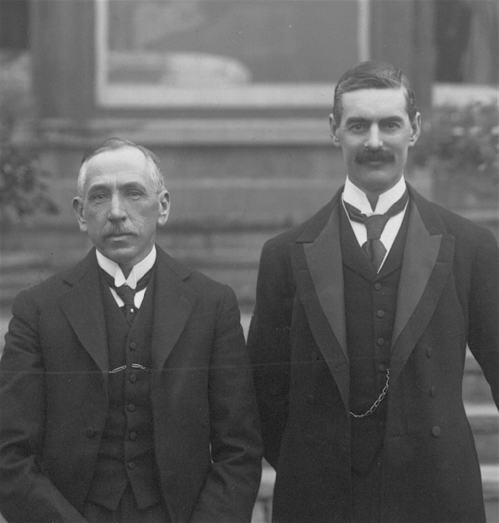 Billy Hughes, Prime Minister of Australia, with Neville Chamberlain, Lord Mayor of Birmingham (and a future Prime Minister of the United Kingdom).